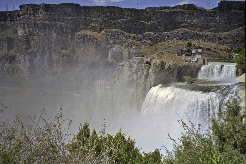 Shoshone Falls, Idaho